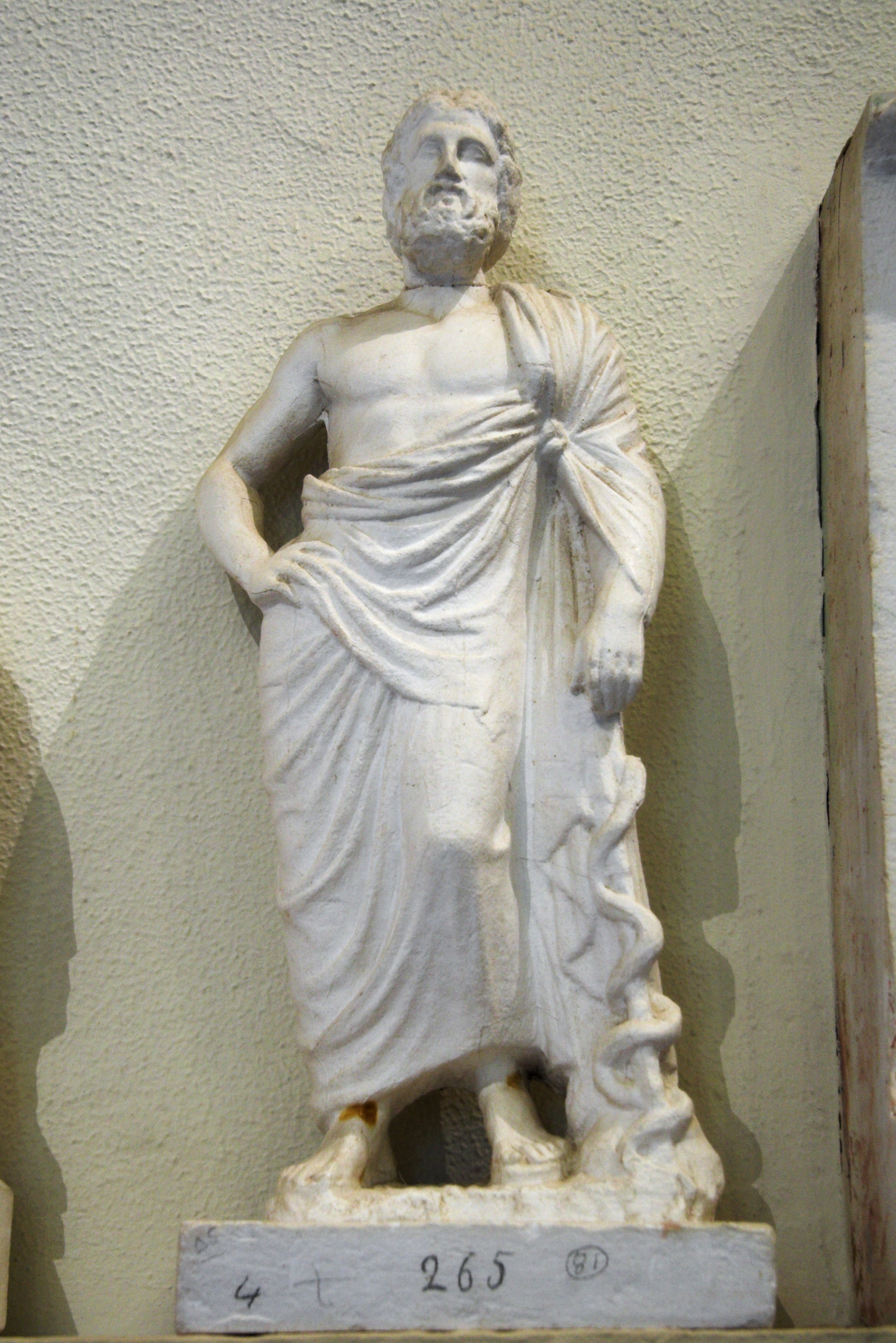 Bearded Asclepius, statue, AM Epidauros, no. 265.